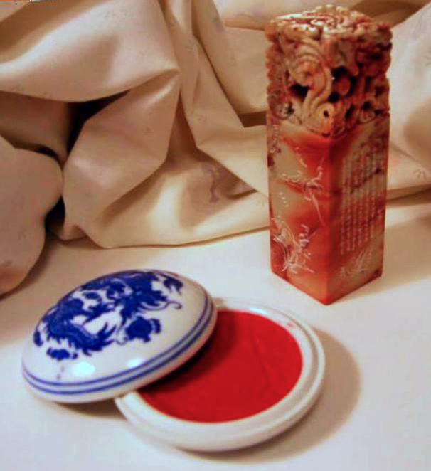 Photo taken by User:Jiang.